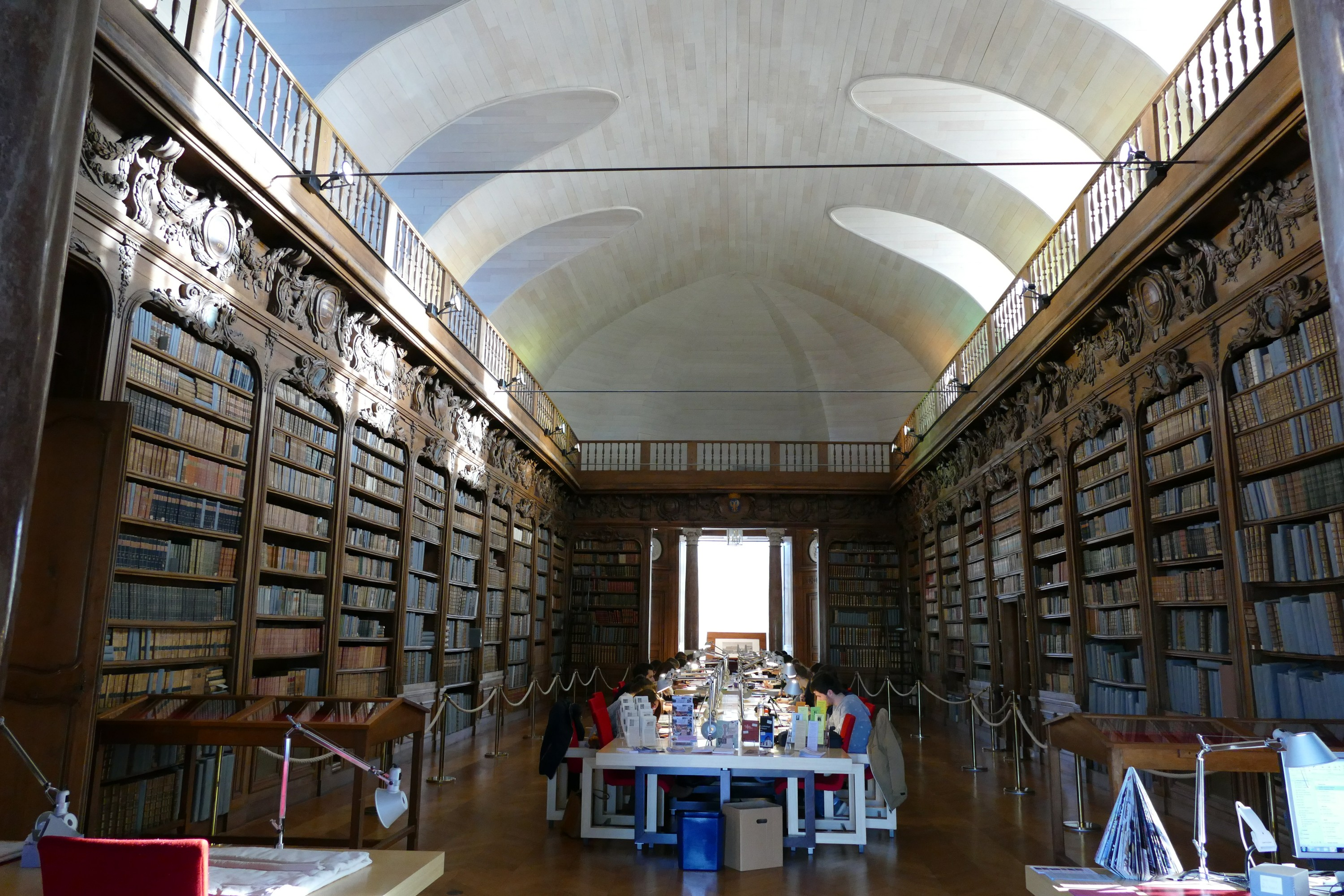 Ancienne chapelle des Jésuites, actuelle bibliothèque in Alençon (Orne, Normandie, France).